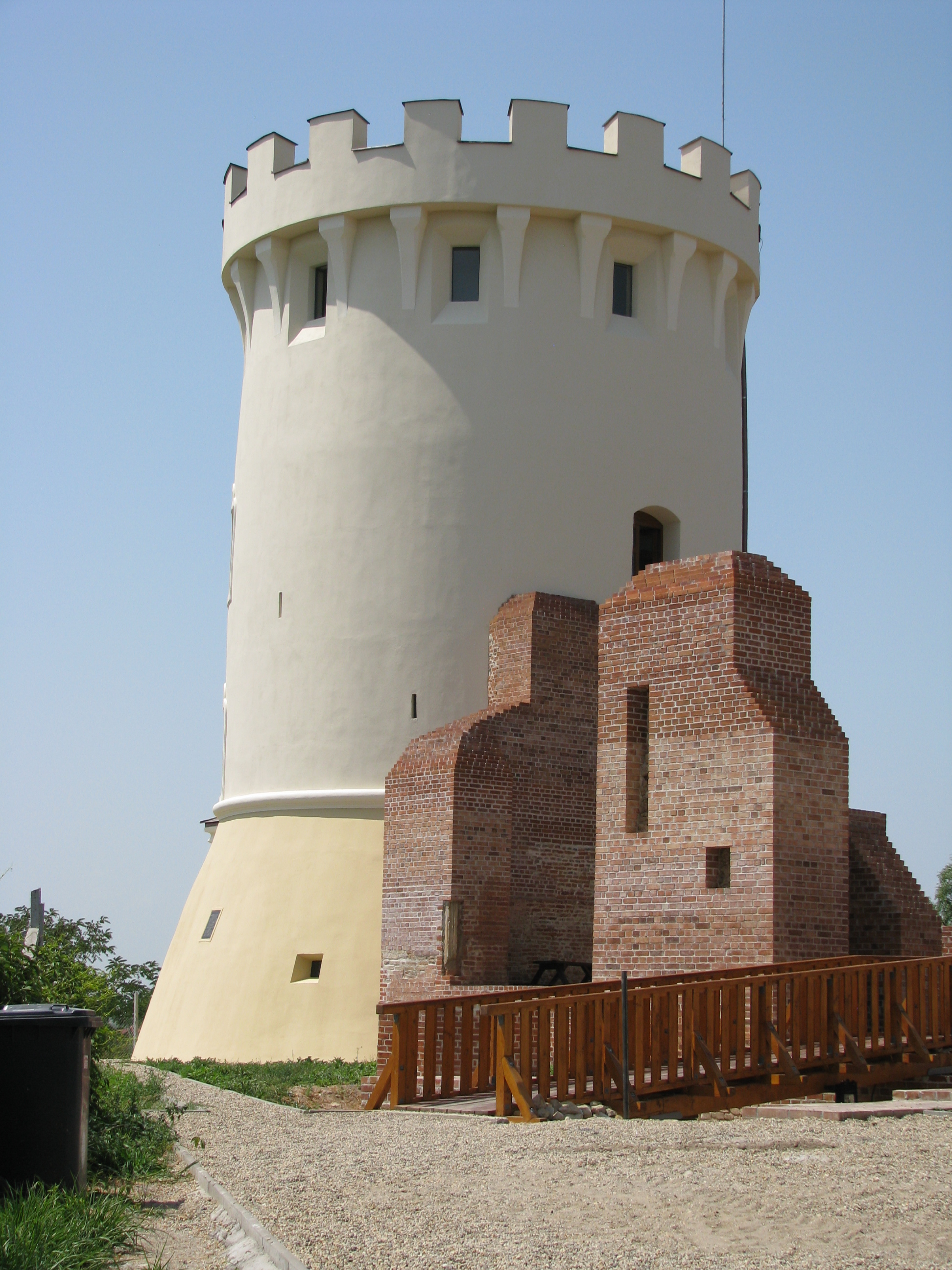 Ardud Fortress, 2012